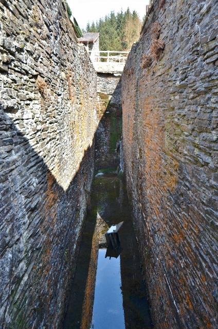 Llynwernog Lead and Silver Mine. A large wheel pit for the long gone waterwheel. This large diameter wheel ran the Cornish crusher and pumps.